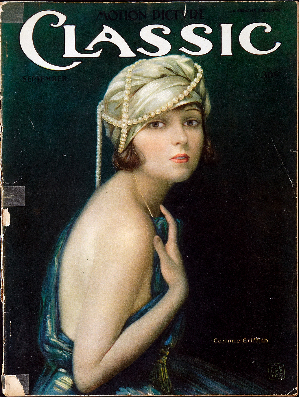 Corinne Griffith on the cover of Motion Picture Classic magazine, September 1921, cover art by Benjamin Eggleston (1867-1937).[1] Mason painted photograph.